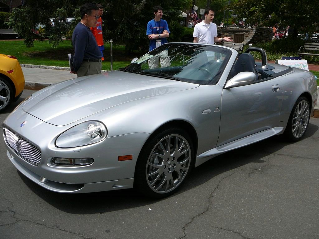 2006 GranSport Spyder.